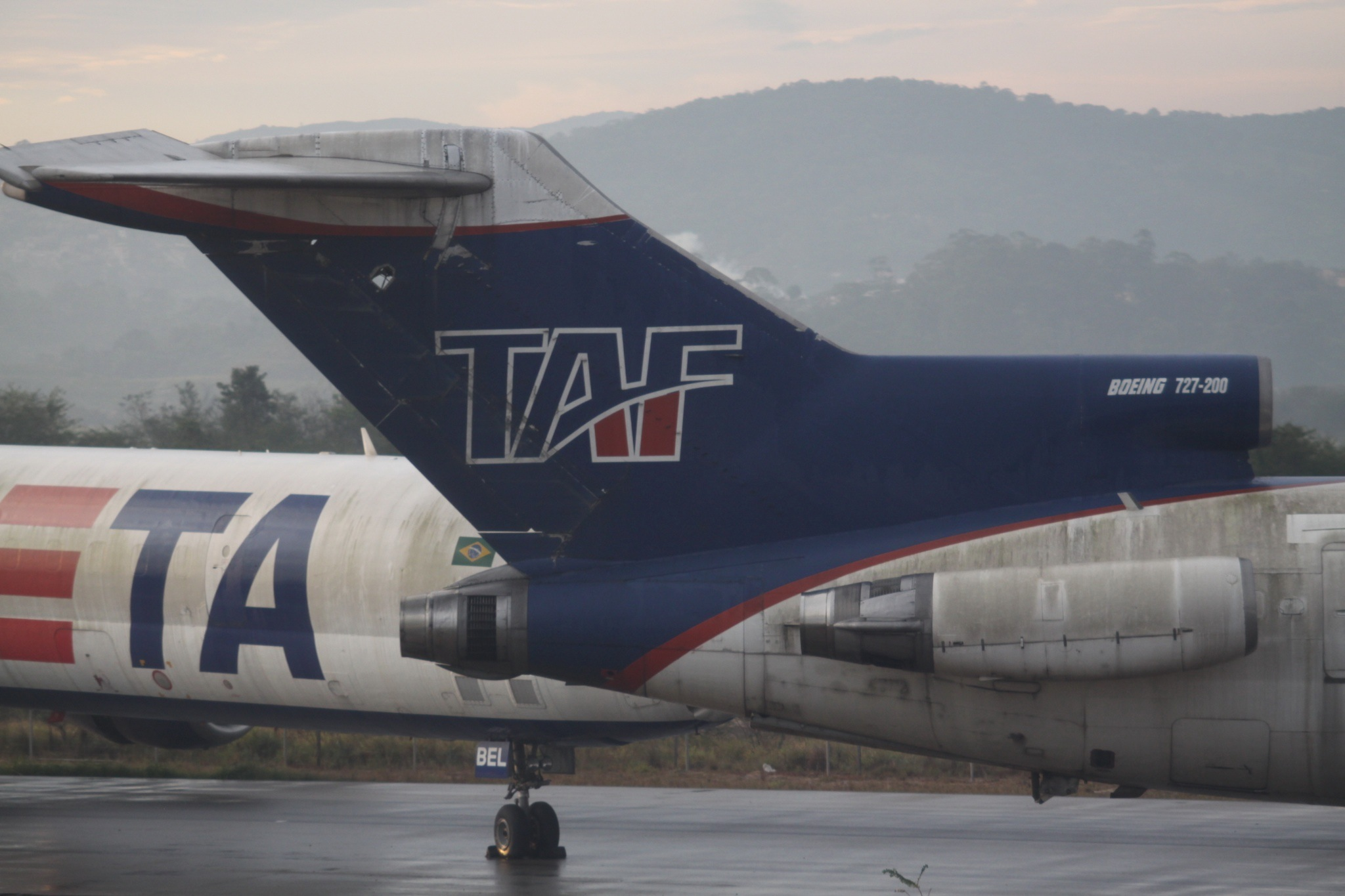 At Sao Paulo Guarulhos